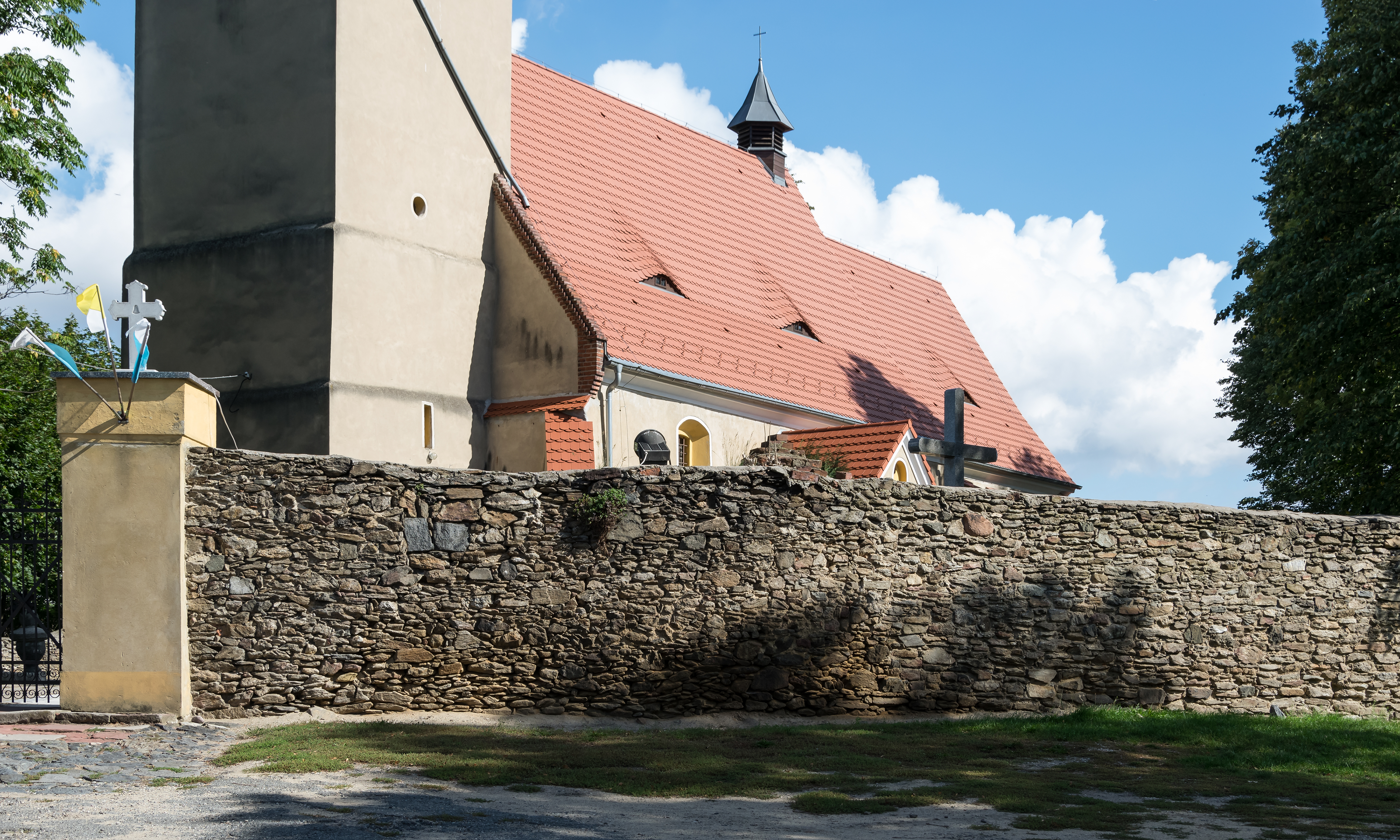 Saint Hedwig church in Przedborowa